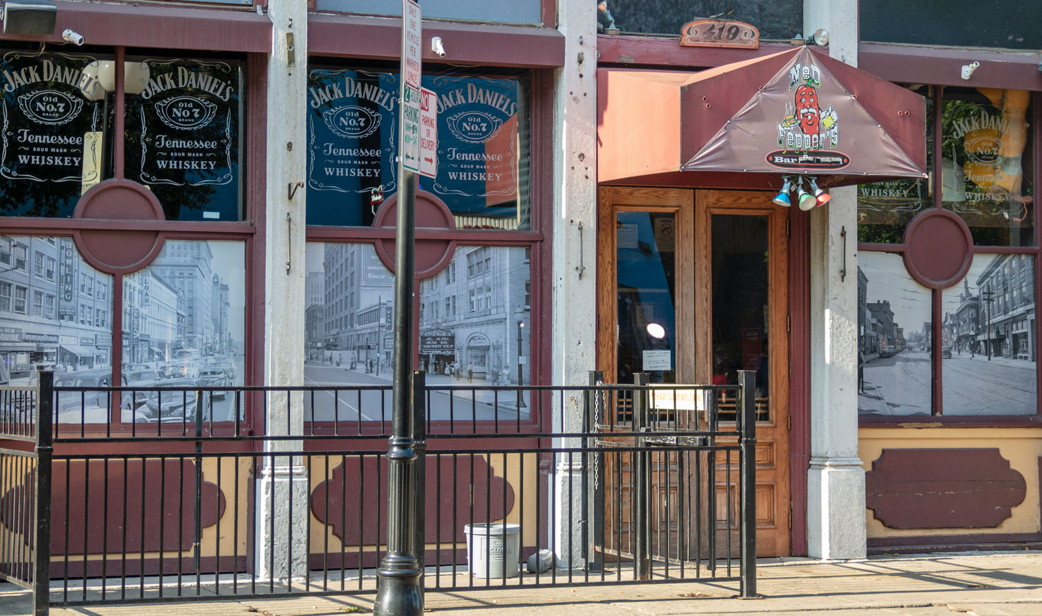 Ned Peppers Bar after 2019 Dayton shooting